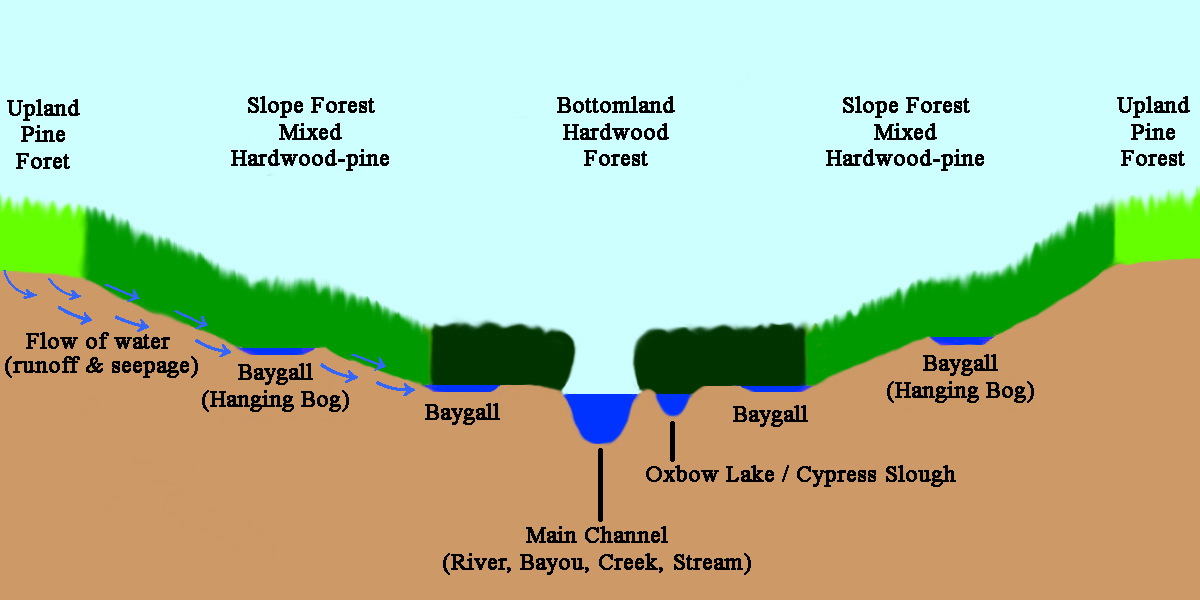 This is a generalized illustration of where the specific wetland-swamp habitat known as "Baygalls" or "Bayheads" typically form in the forest of southern Gulf Coast states in the USA. Ecologist recognize baygalls as a distinct ecosystem. This illustration is based on descriptions published in the following - Ajilvsgi, Geyata (1979) Wild Flowers of the Big Thicket: East Texas, and Western Louisiana. Texas A&M University Press. College Station, Texas 361 pp. ISBN 0-89096-064-X Peacock, Howard (1994) Nature Lover's Guide to the Big Thicket. Texas A&M. University Press. College Station, Texas. 169 pp. ISBN 0-89096-589-7 Watson, Geraldine Ellis (2006) Big Thicket Plant Ecology: An Introduction, Third Edition (Temple Big Thicket Series #5). University of North Texas Press. 152 pp. ISBN 978-1574412147